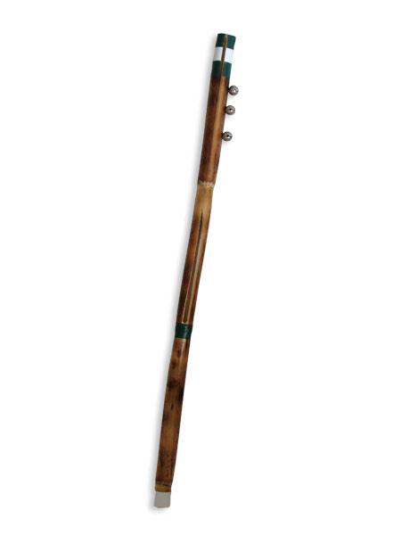 musical instrument from Spain